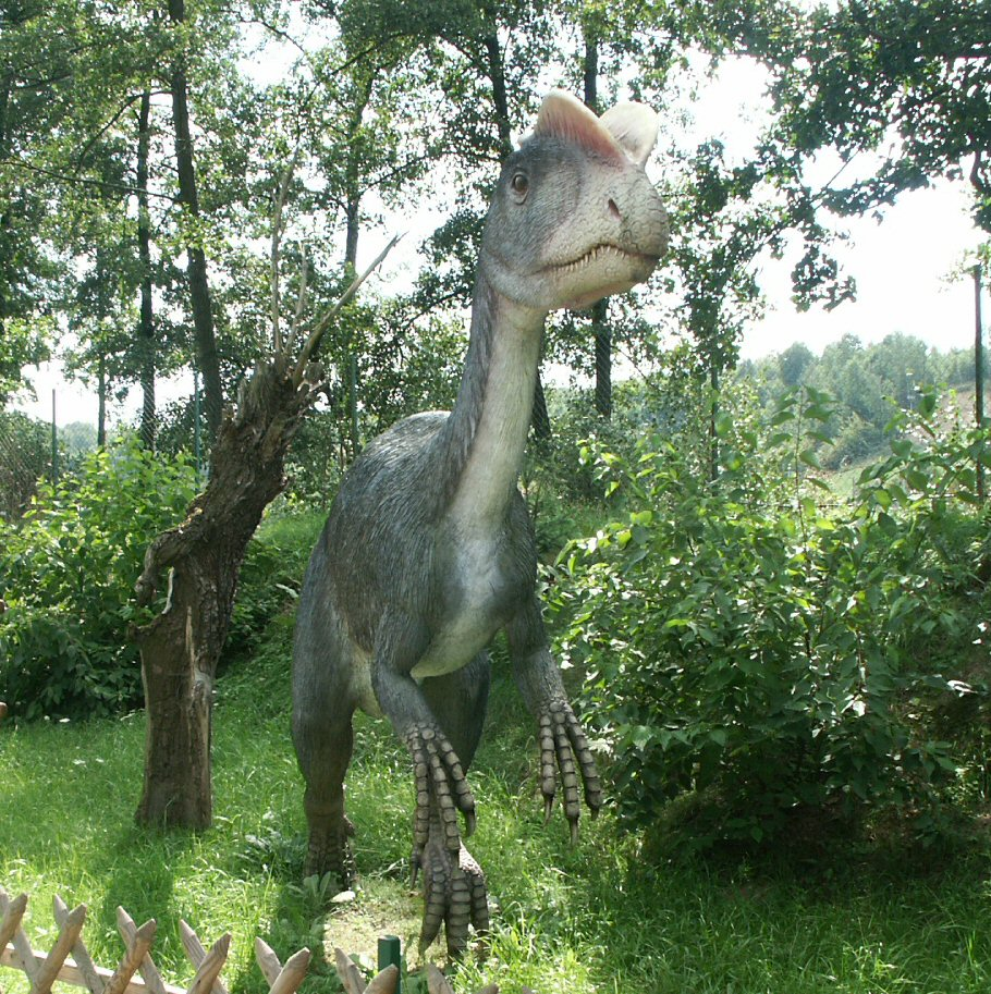 Dilophosaurus model at Bałtów Jurrasic Park